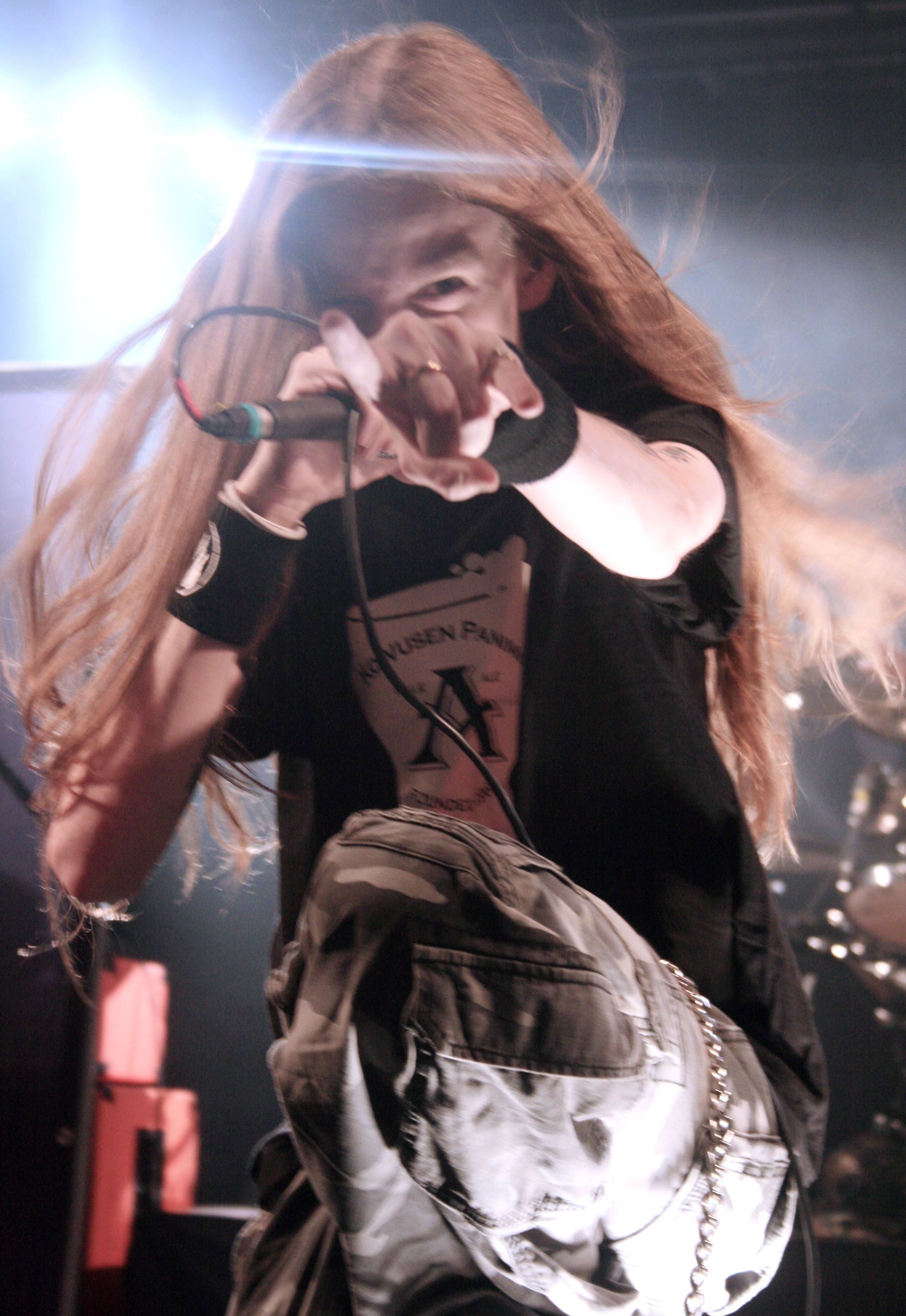 Ari Koivunen / Amoral at Finlandia-klubi in Lahti FINLAND 1st of April 2010 - Ming-Yan Alexis Wong's Photos